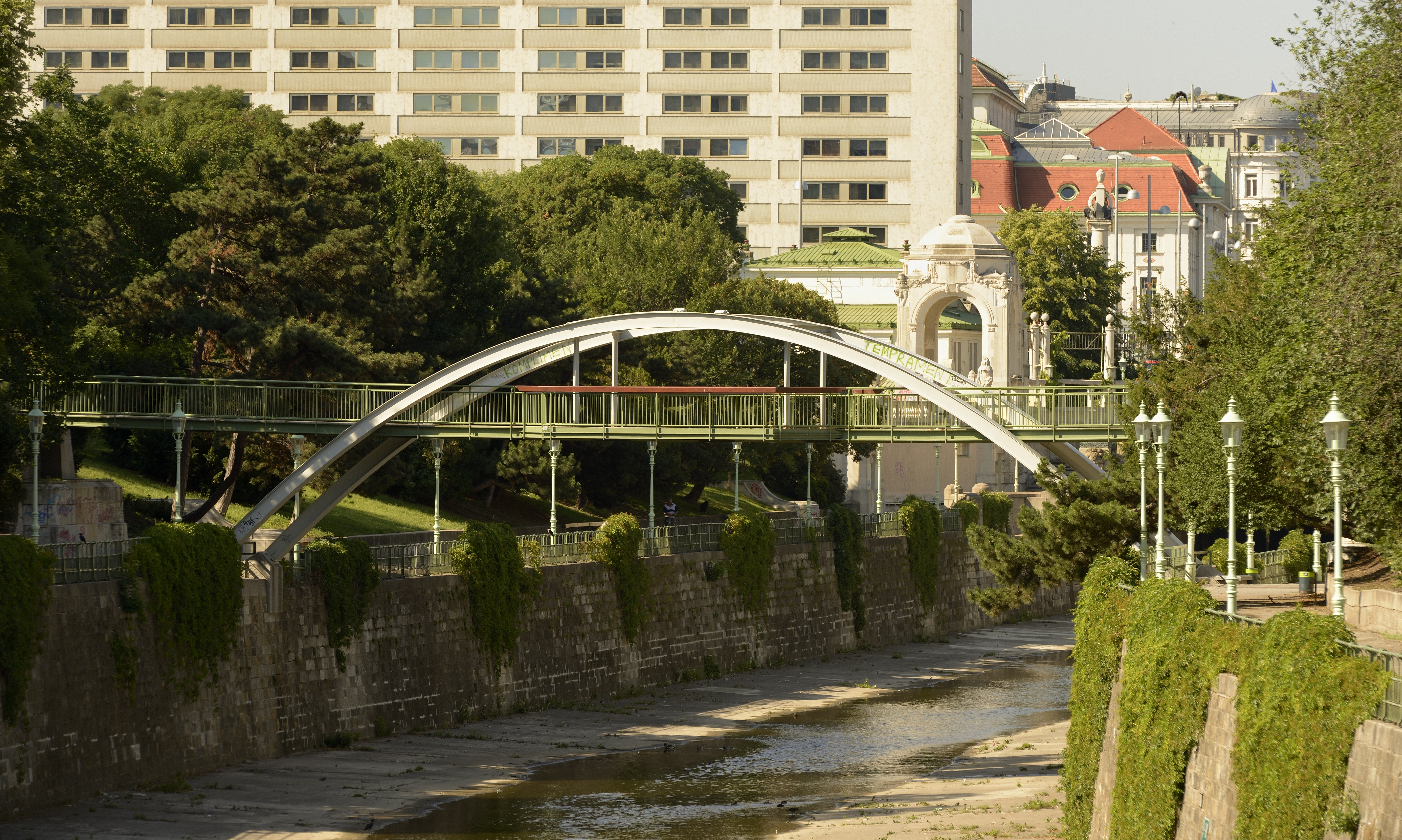 Stadtparksteg crossing the Wien river